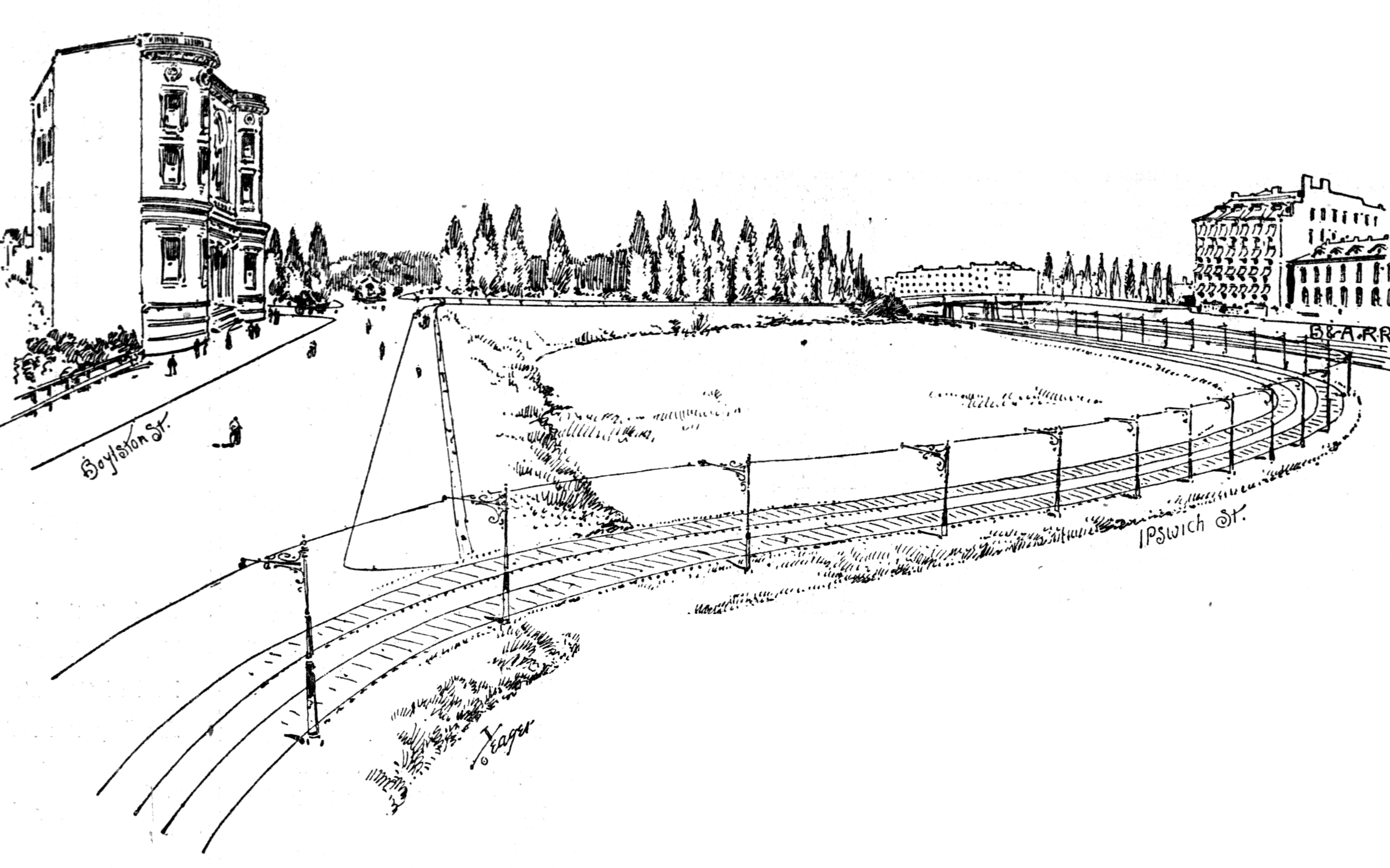 An 1899 drawing of the Ipswich Street line